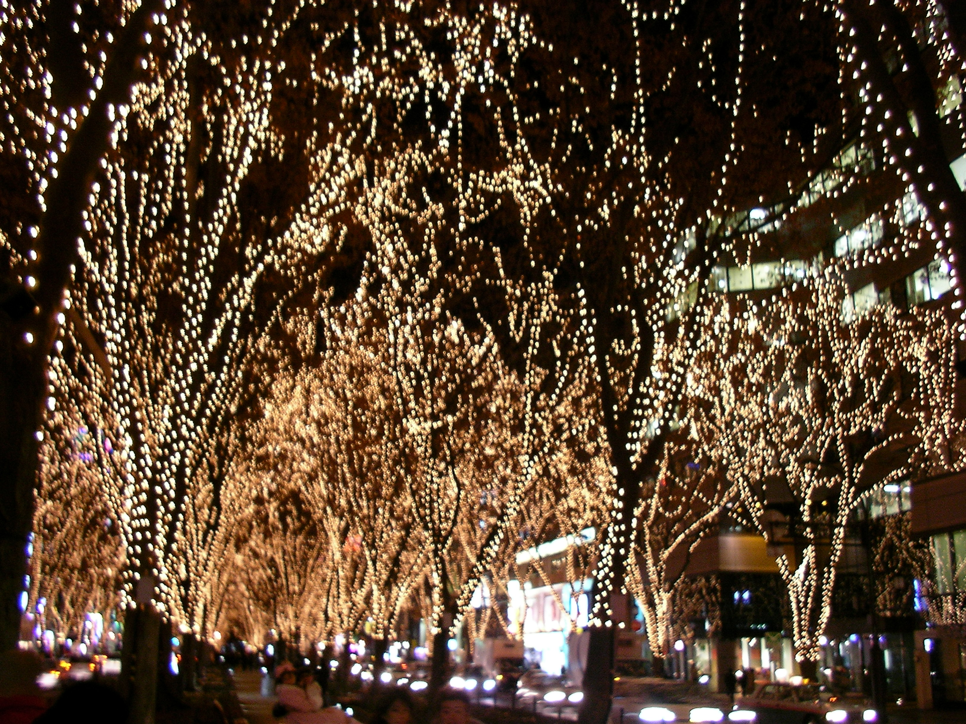 Photograph of Sendai Pageant of Starlight (SENDAI光のページェント)